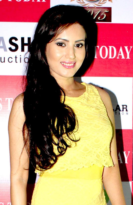 Sarkar grace Films Today magazine's 9th anniversary celebration at Levo Lounge